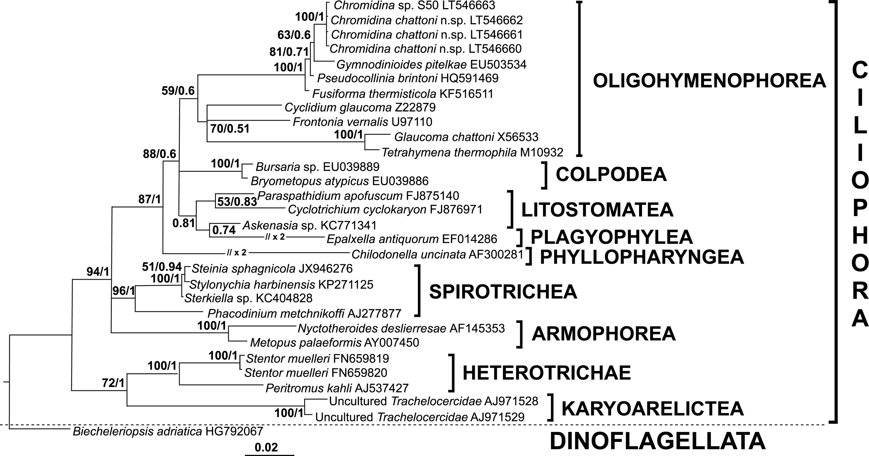 Figure 4 of paper Phylogenetic position of Chromidina spp. within Ciliophora. This phylogenetic tree, rooted on a dinoflagellate rDNA sequence, was inferred from 30 small subunit (SSU) 18S rDNA sequences corresponding to the four Chromidina specimens identified in this study, 25 representatives of the major classes of the phylum Ciliophora, and one Dinoflagellata sequence taken as the outgroup. There were a total of 1,157 positions in the final dataset. Both the Maximum Likelihood (ML) method and Bayesian inferences, based on the general time-reversible +G +I model [28], were conducted and yielded similar topologies; the currently presented topology was obtained by the Bayesian inference. The tree is drawn to scale, with branch lengths measured in number of substitutions per site. Some branches were shortened by multiples of the length of substitutions/site scale bar (Plagyophylea, Phyllopharyngea). Numbers at the branches denote ML bootstrap percentage, from 1,000 resampling (first value) and Bayesian posterior probabilities (second value).